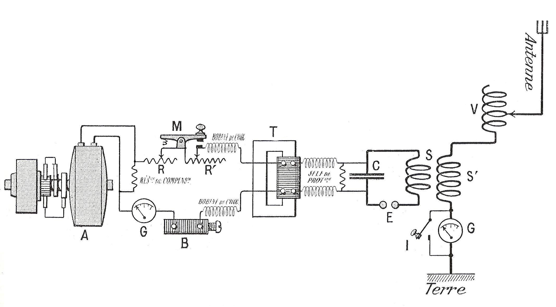 A schematic diagram of a spark-gap transmitter from about 1916.